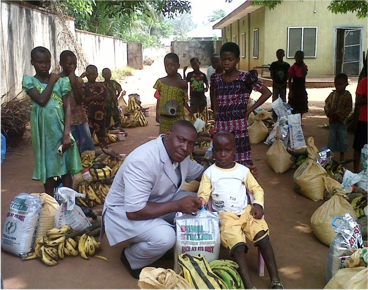 Photo of Chuma Mmeka providing psychosocial and nutritional support to orphans and vulnerable Nigerian children